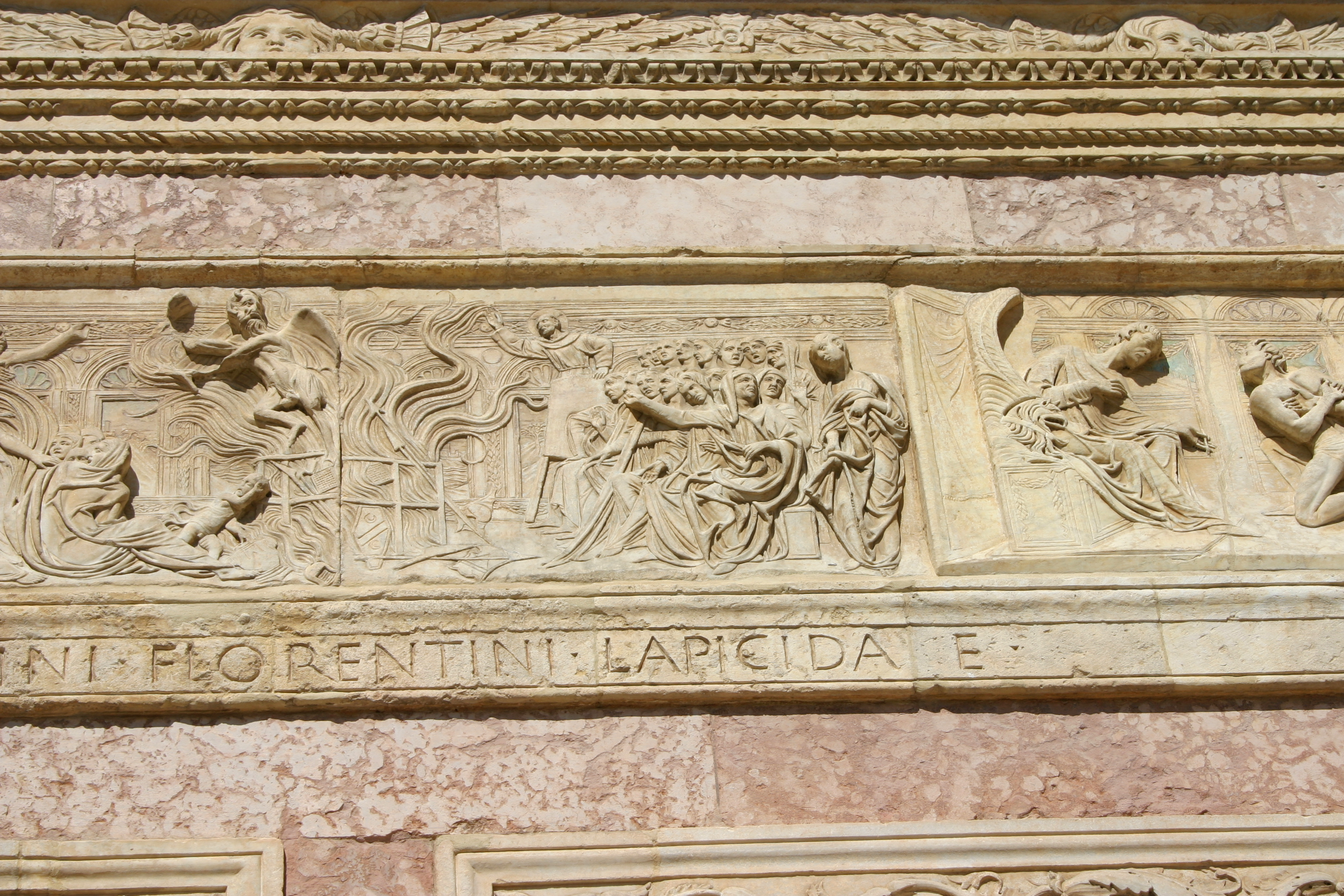 Bernardino of Siena organising the vanities bonfire. Perugia, The Oratorio di San Bernardino, by Agostino di Duccio, built between 1457 and 1461, a Renaissance masterpiece. Picture by Giovanni Dall'Orto, August 6, 2006.